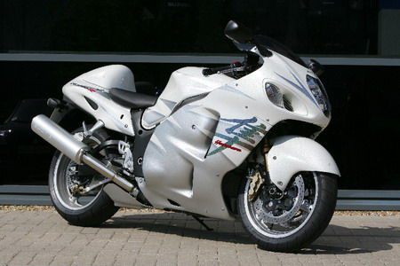 LE model 2007